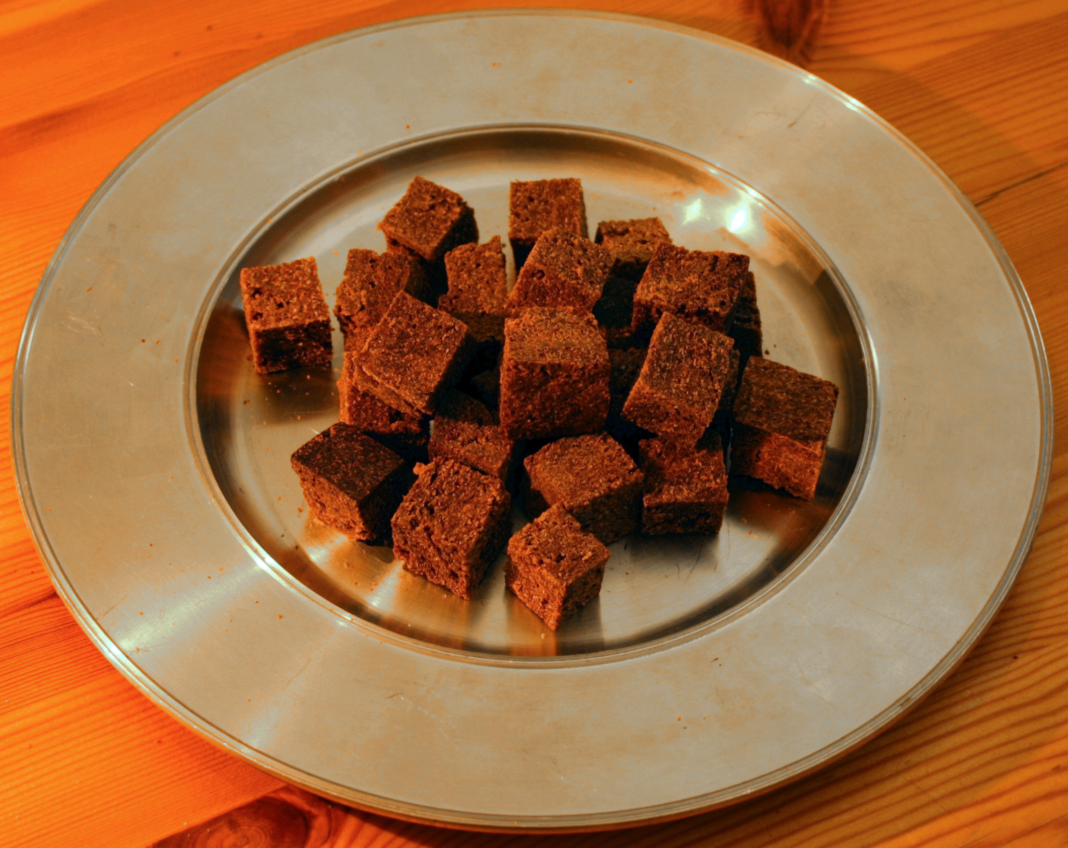 Rusk squares made of rye sourdough (some sources named it "Ammunition bread"). Baked and cut as Charles XII of Sweden order it to be.